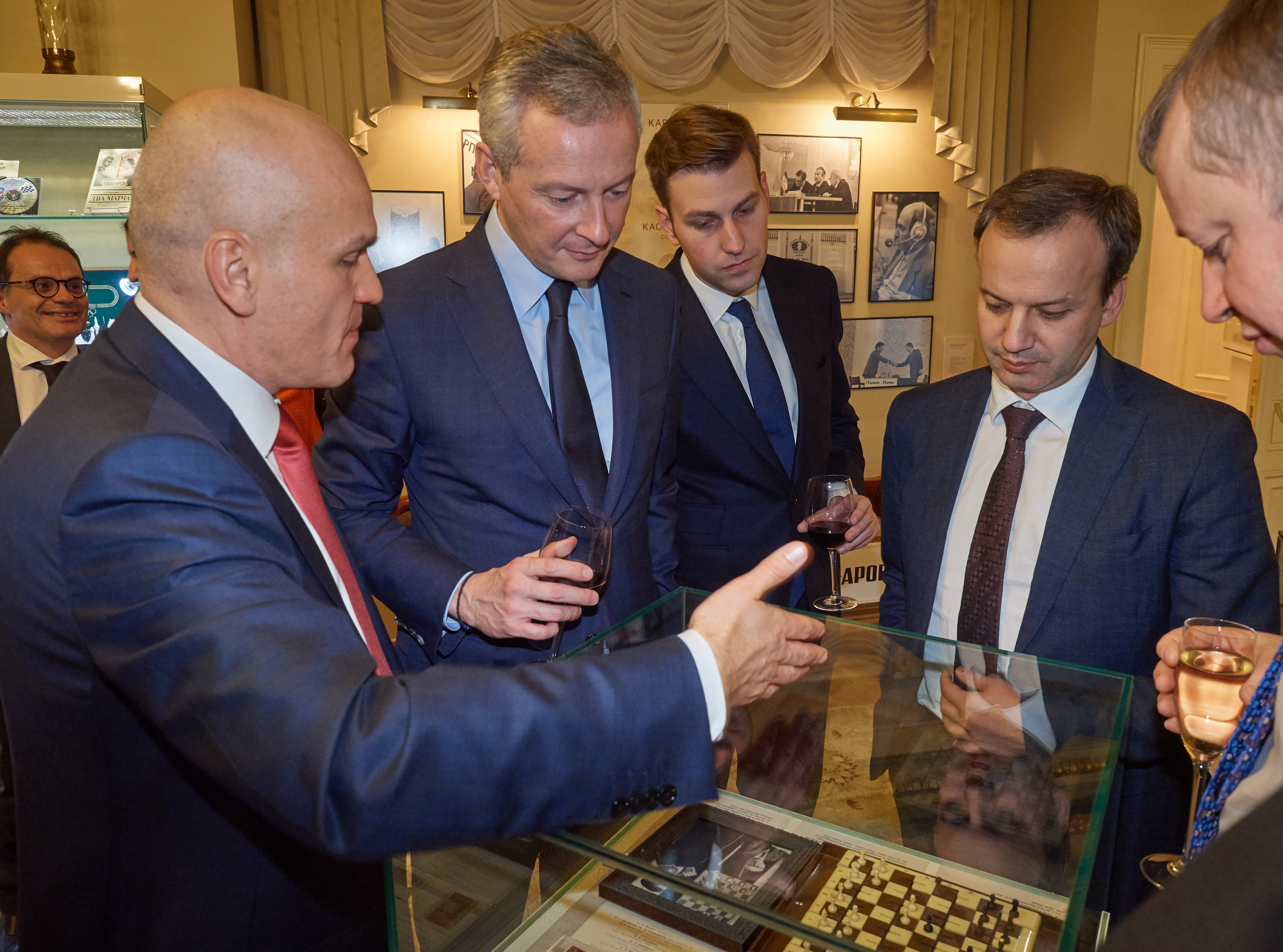 President of the Russian Chess Federation (RCF) Andrey Filatov, France’s Minister of the Economy and Finance Bruno Le Maire and Deputy Prime Minister of the Russian Federation Arkady Dvorkovich at the Russian Chess Museum in Moscow.